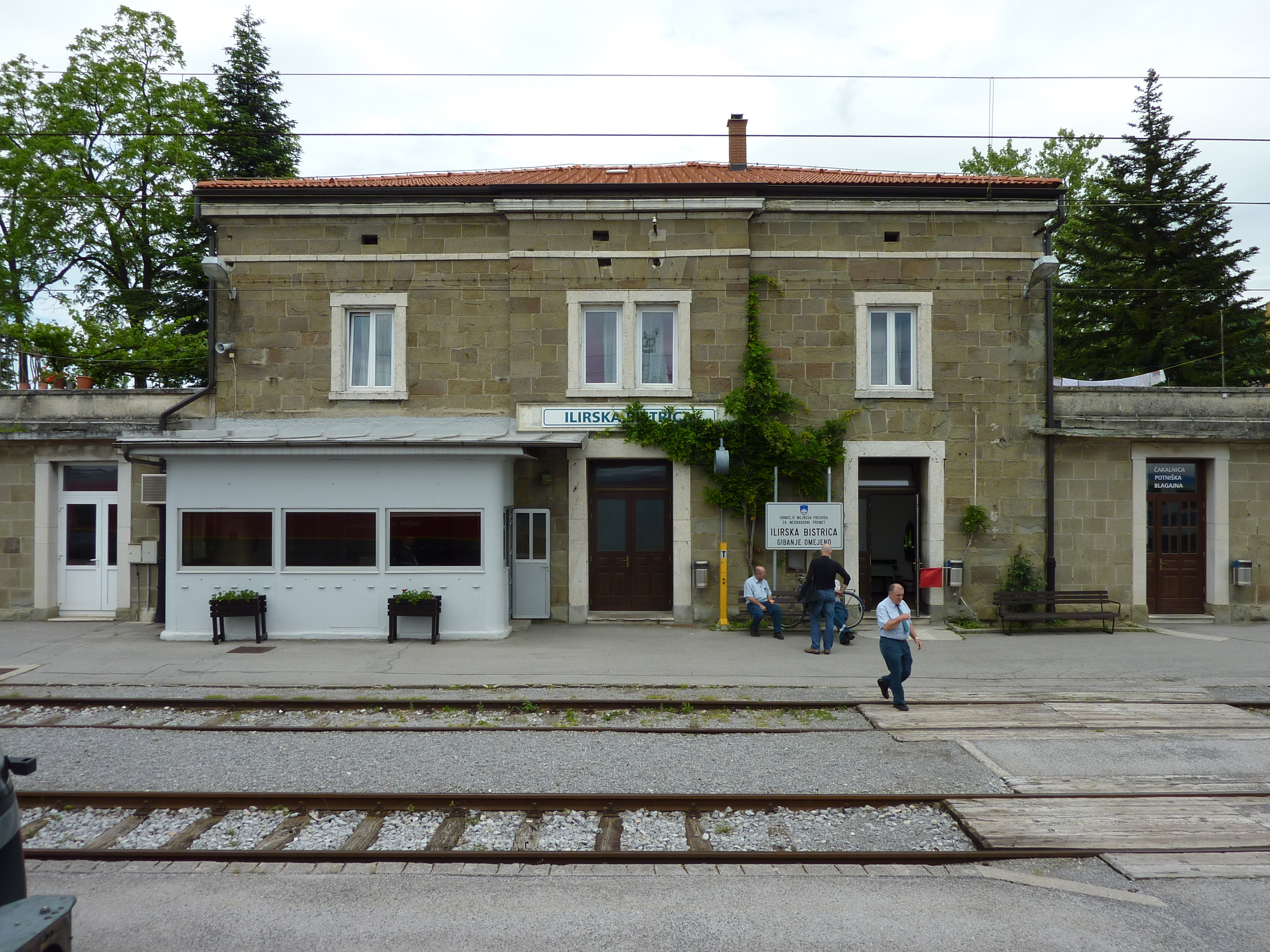 Railway station Ilirska Bistrica in Slovenia